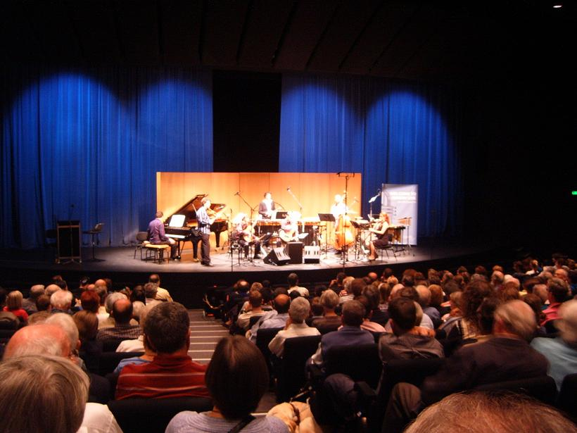 ABC Classic FM live concert, Canberra Theatre, Sunday 15 April 2007. Artists: Dominant SEVEN, that consists of seven graduate and postgraduate musicians from the Australian National University School of Music in Canberra. Timothy Wickham (violin) Bradley Kunda (classical guitar) Harold Gretton (classical guitar) Nicole Bates (clarinet/bass clarinet) Adam Dickson (percussion) Nathaniel Johnstone (double bass) Geoffrey Xeros (piano) Photograph taken with "available light" immediately before the concert.